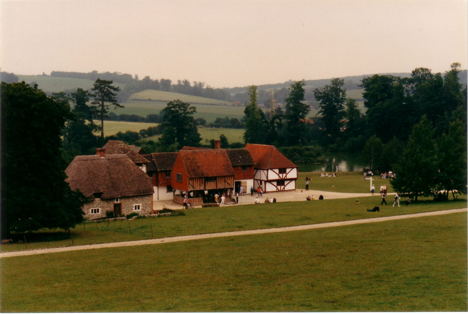 group of buildings at the Weald and Downland Open Air Museum